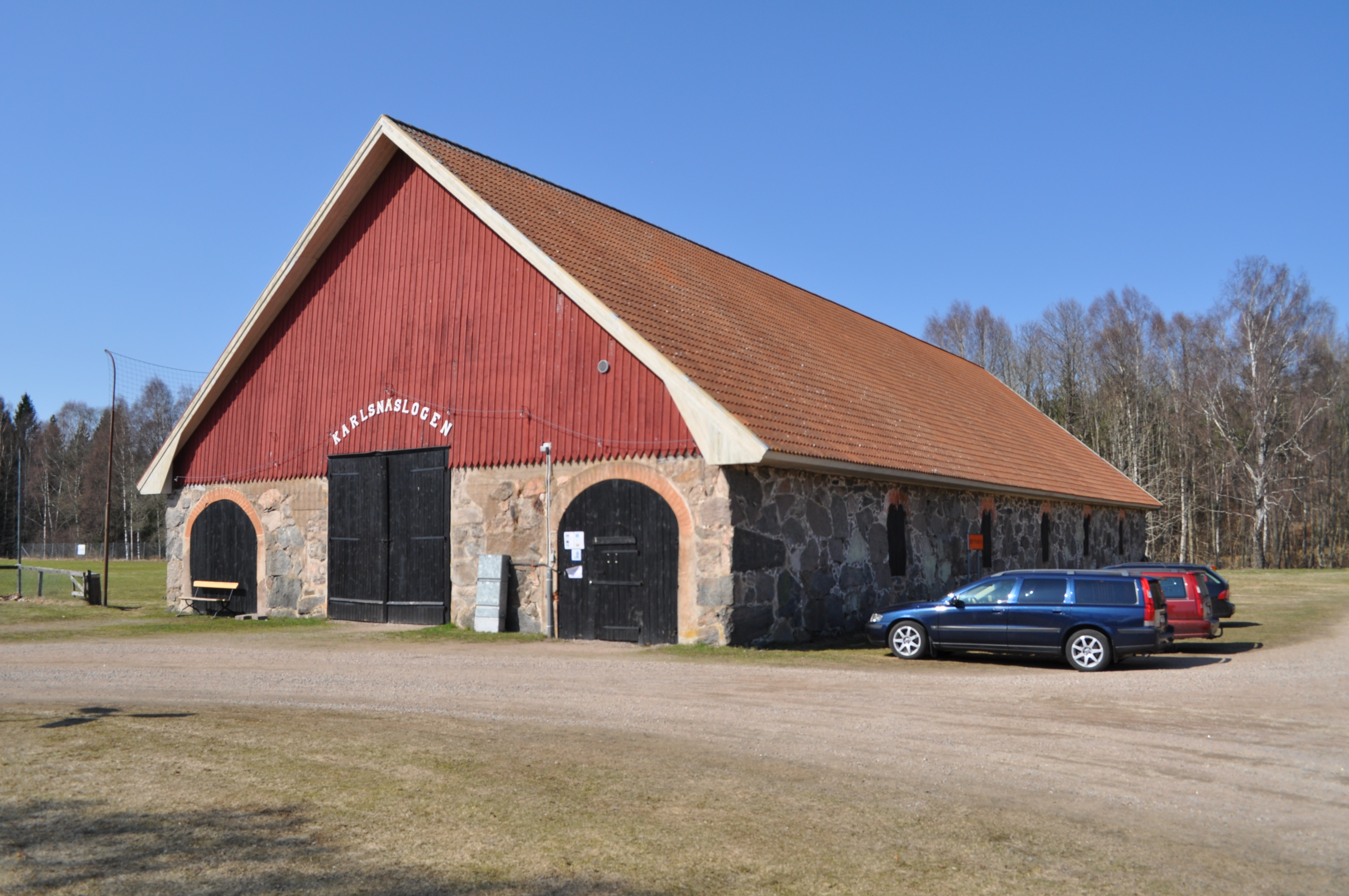 Karlsnäsgården-Dansloge/Barn. Ronneby Municipality